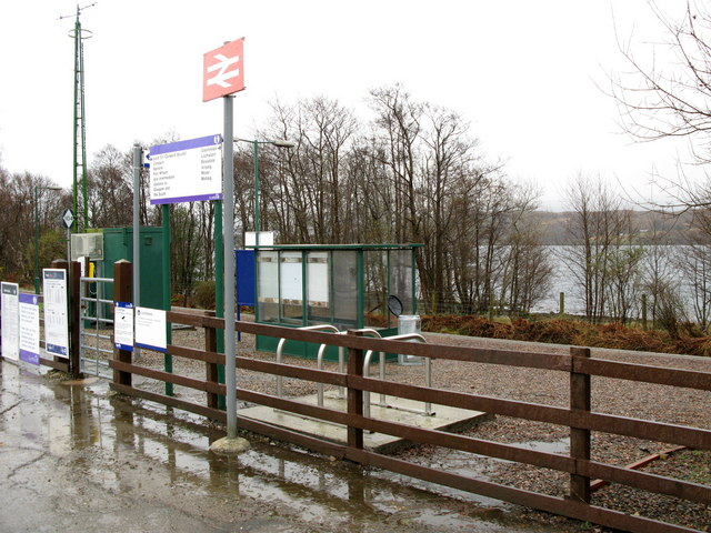 Locheilside Station, Highland, Scotland. The Fort William to Maillaig line runs alongside Loch Eil.